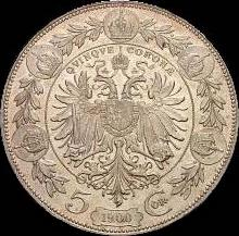 5 coronae, 1900 (Austria) - reverse